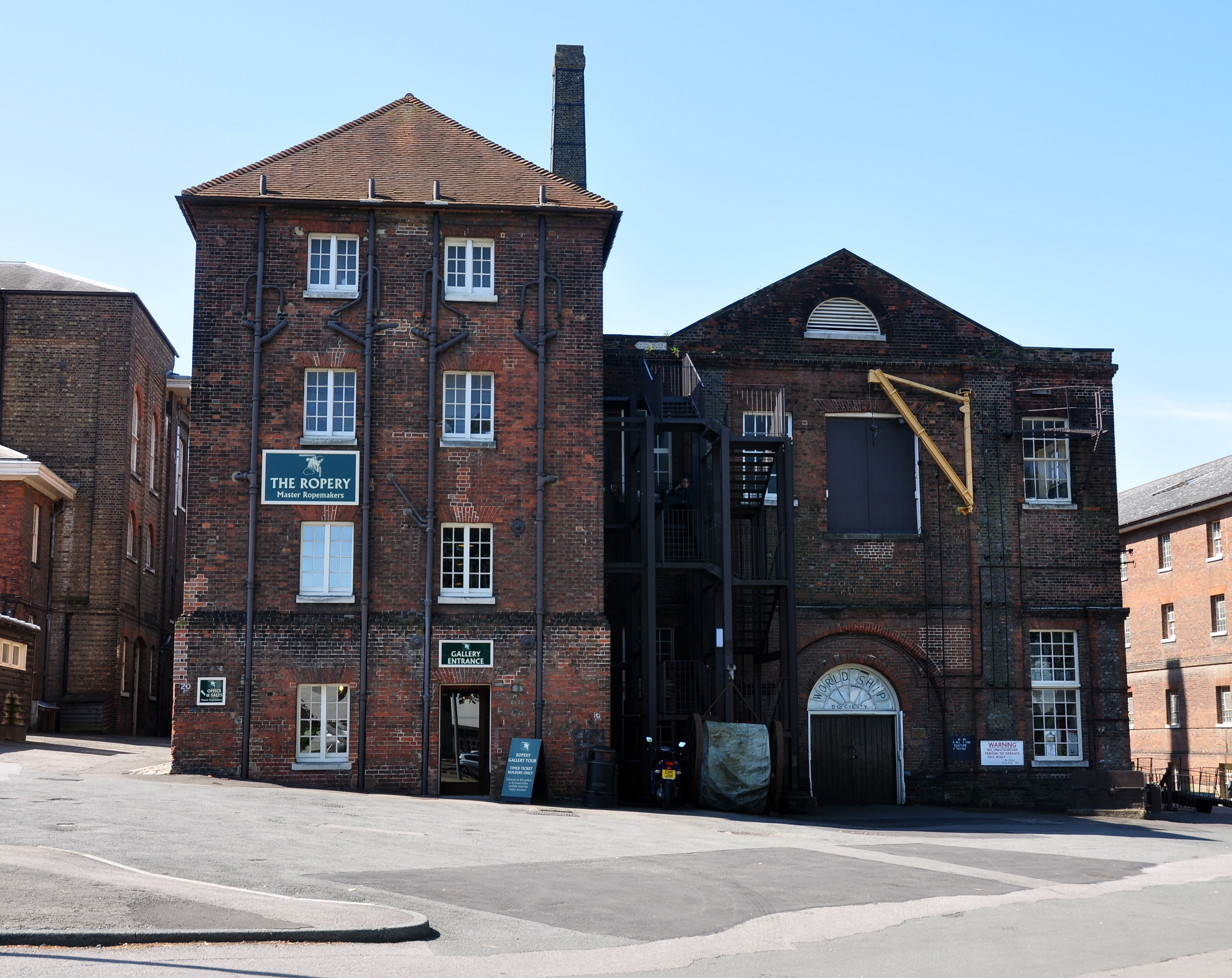 The ropery at Chatham Dockyard, Kent.